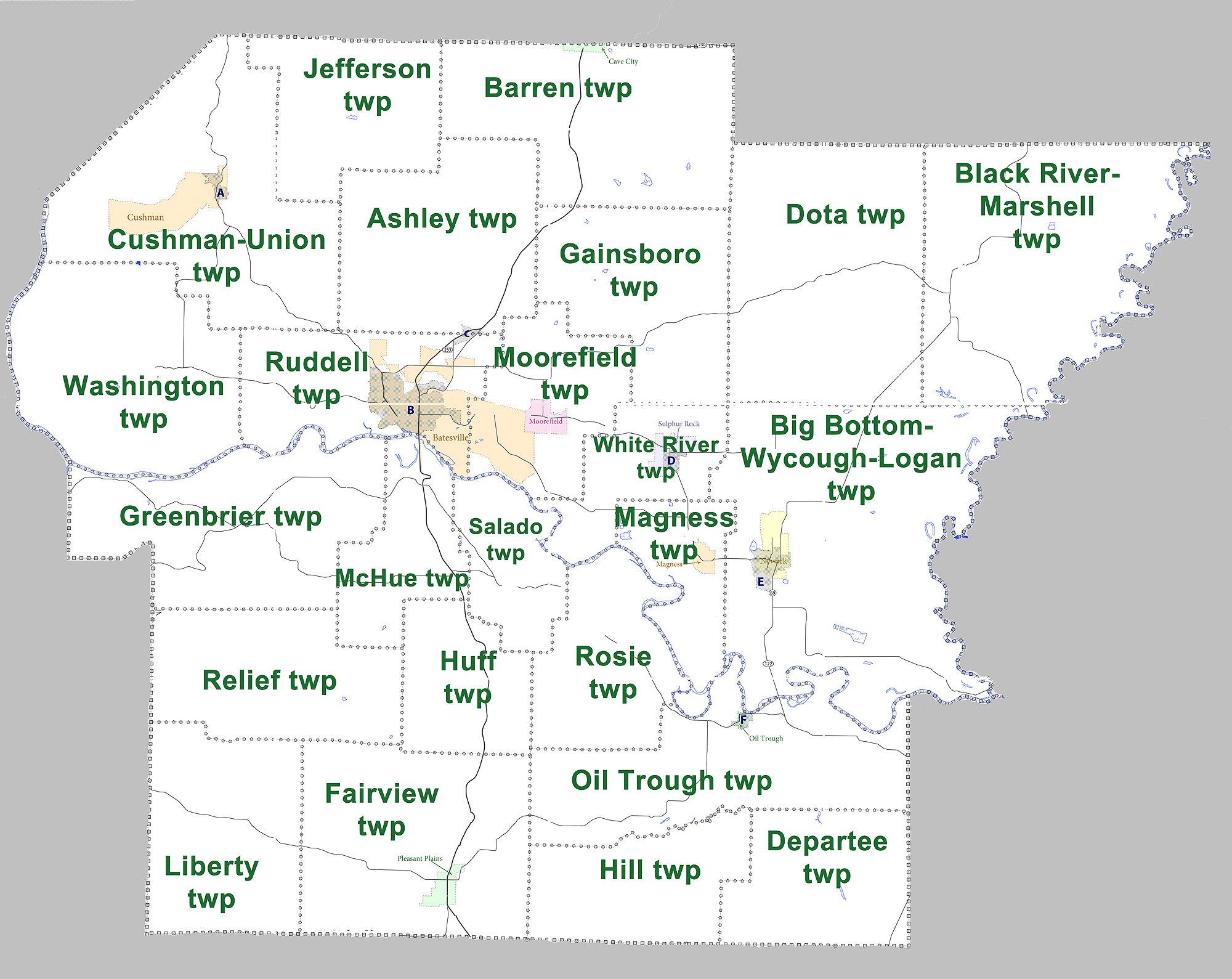 Large map showing townships in Independence County, Arkansas. Modified from US census map (for 2010 census) for Independence County, Arkansas